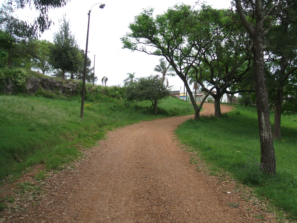 Harriague's Park in Salto, Uruguay.